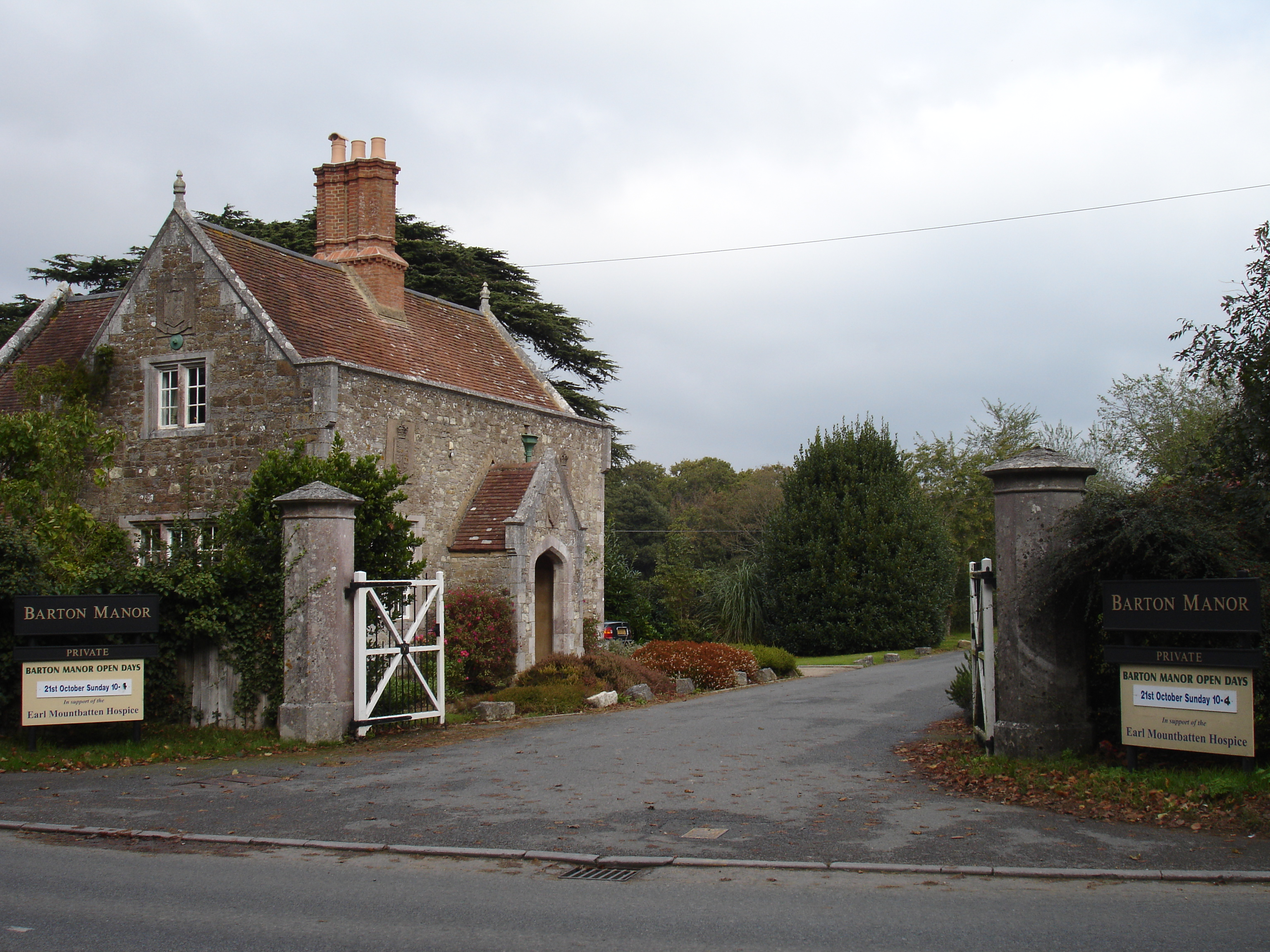 Gateway and north lodge of Barton Manor Estate, East Cowes, Isle of Wight, England, seen from the southwest